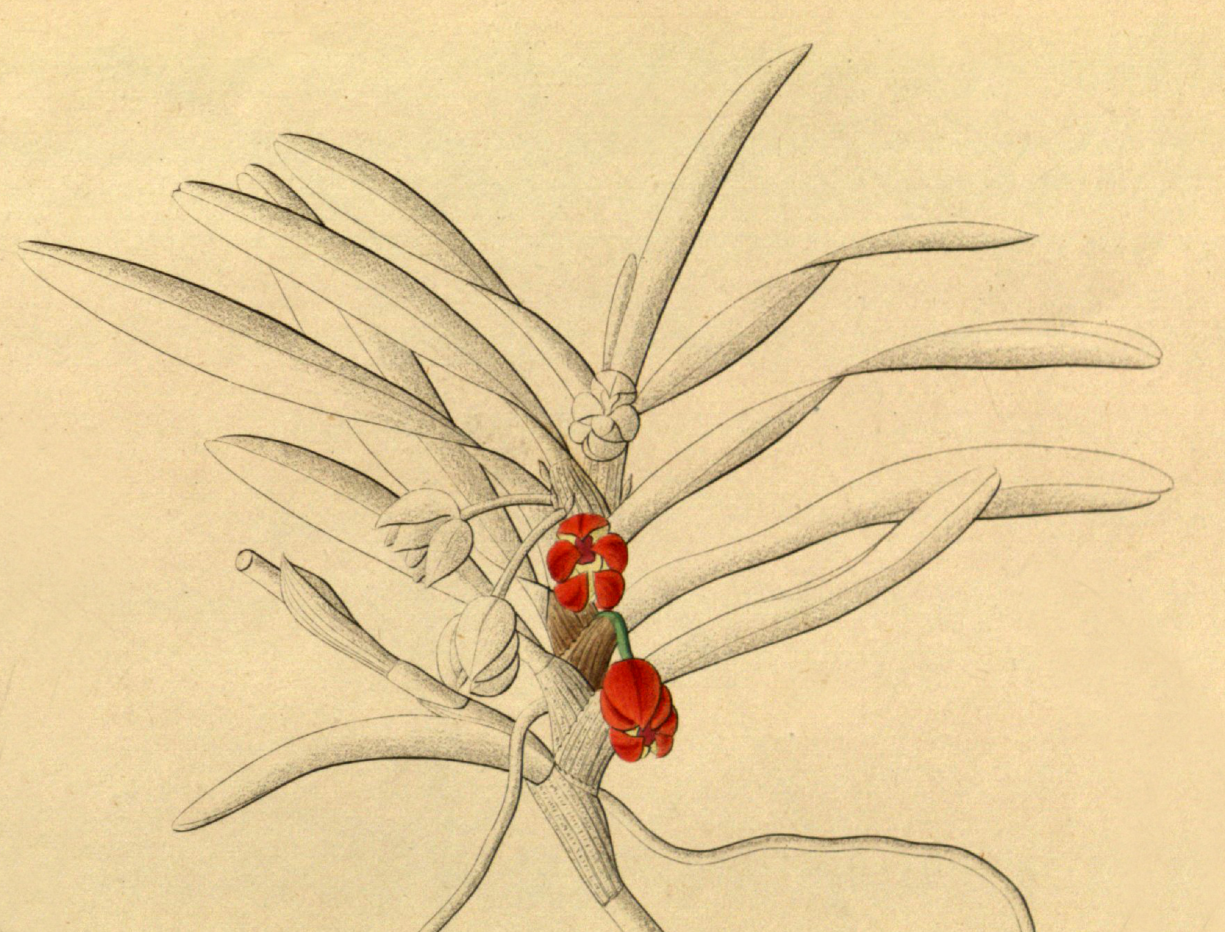 Illustration of Maxillaria jenischiana (as syn. Ornithidium jenischianum)